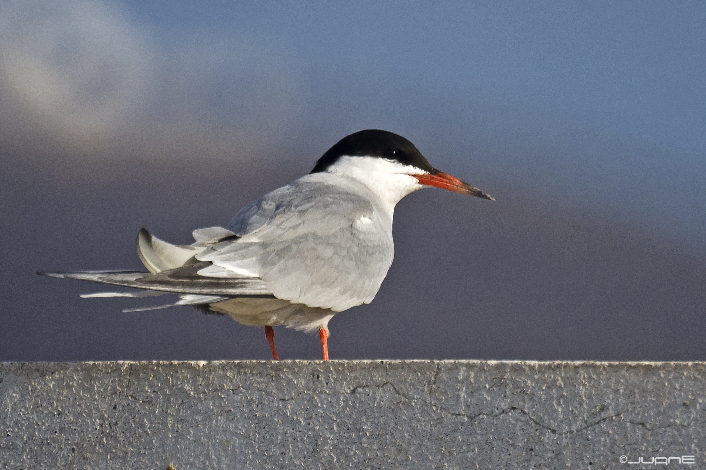 I only take photos from birds in freedom without any decoy